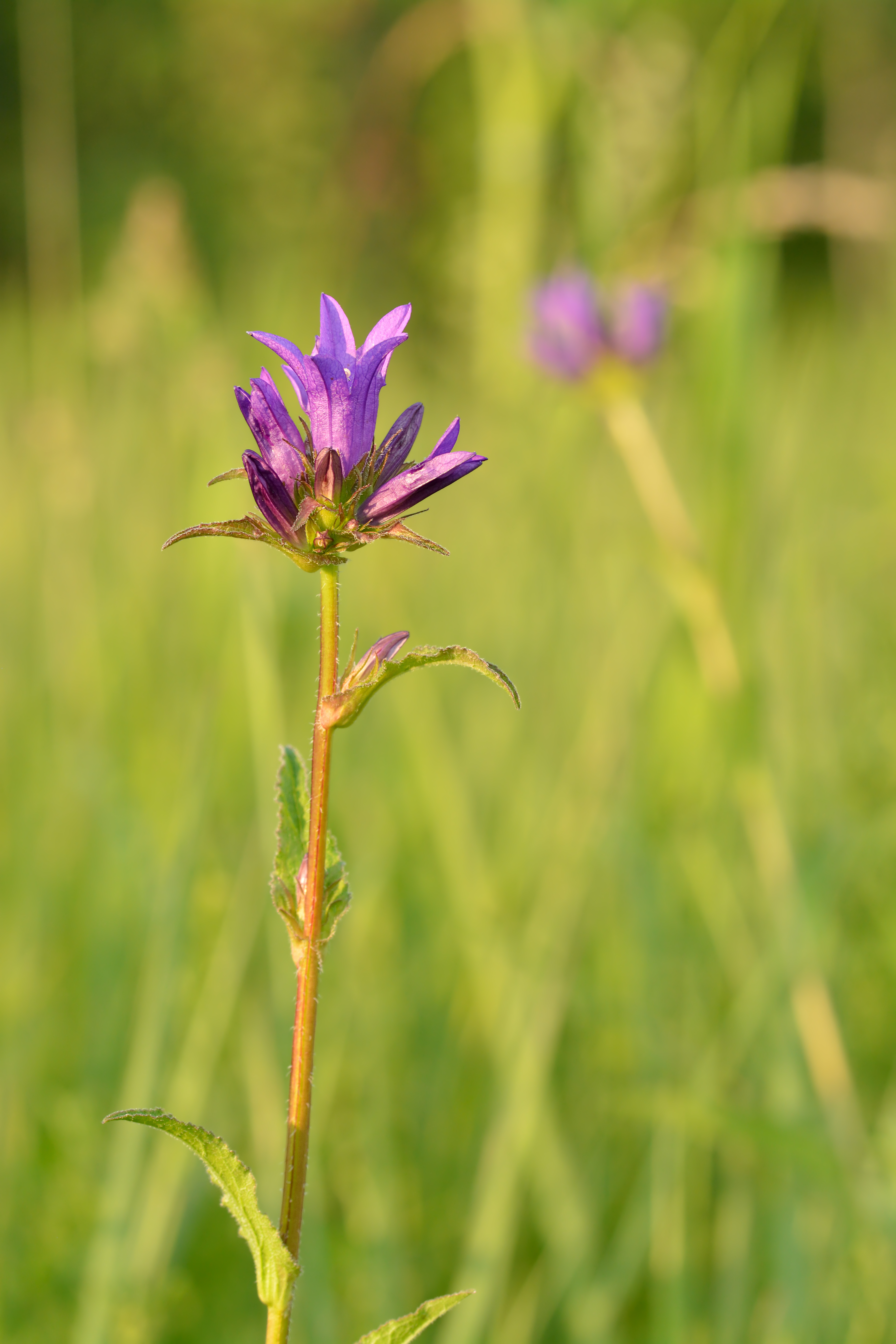 Dane 's blood (Campanula glomerata), Pakri peninsula.